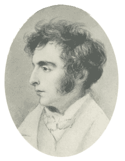 Drawing of Edward Daniel Leahy (1797-1875)